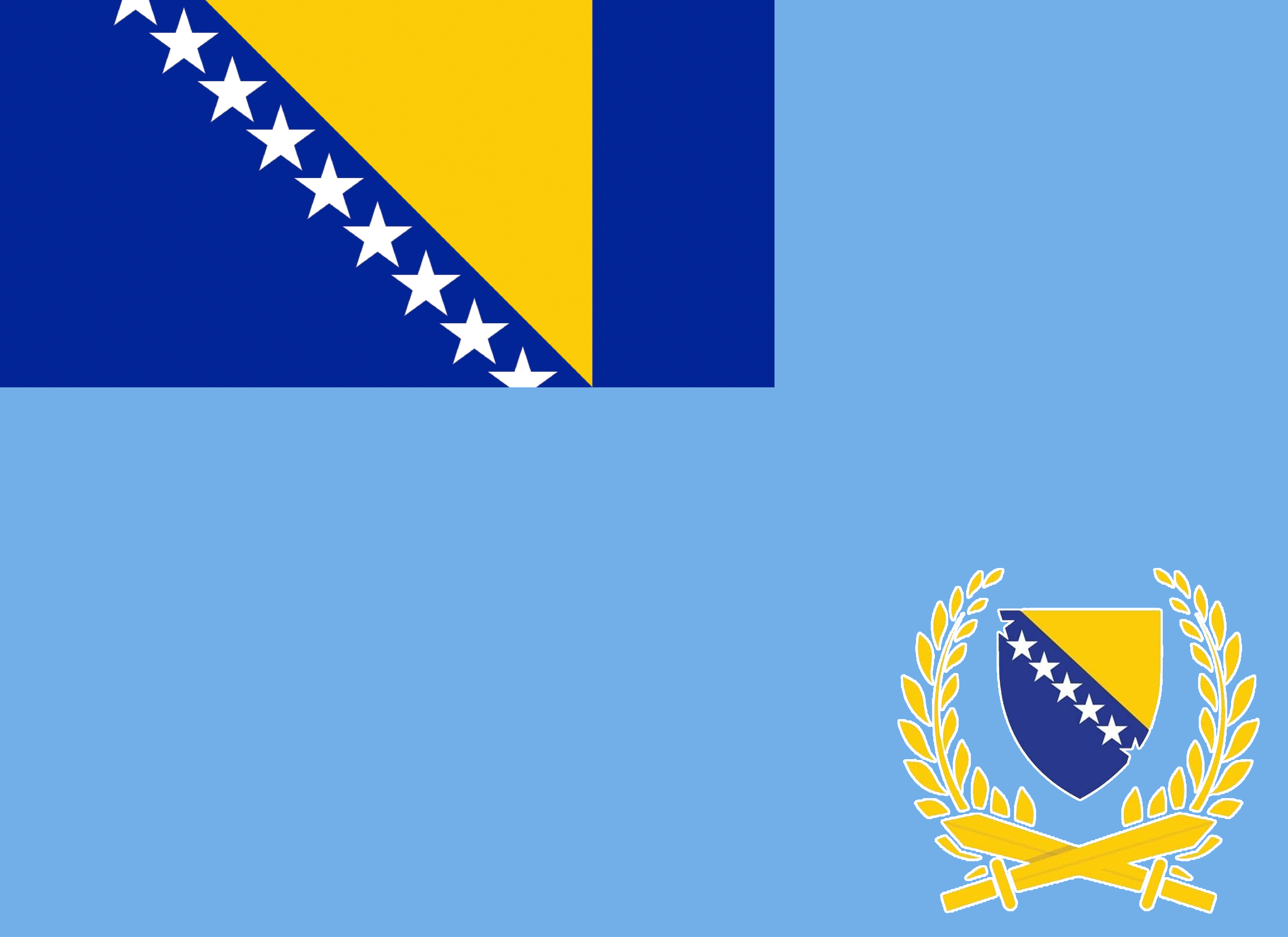 Flag of the Armed Forces of Bosnia and Herzegovina.